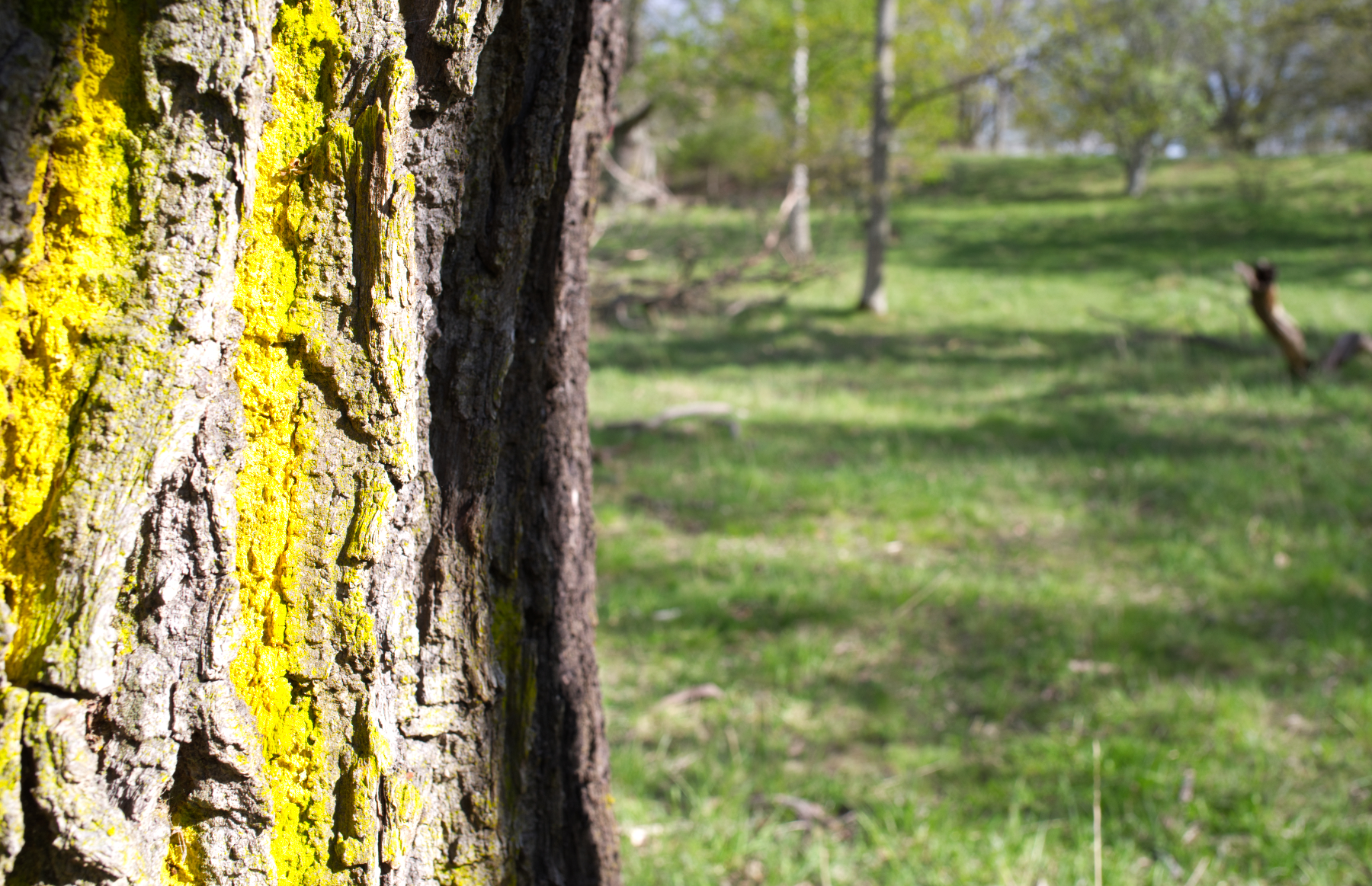 The old oaks host a lot of life